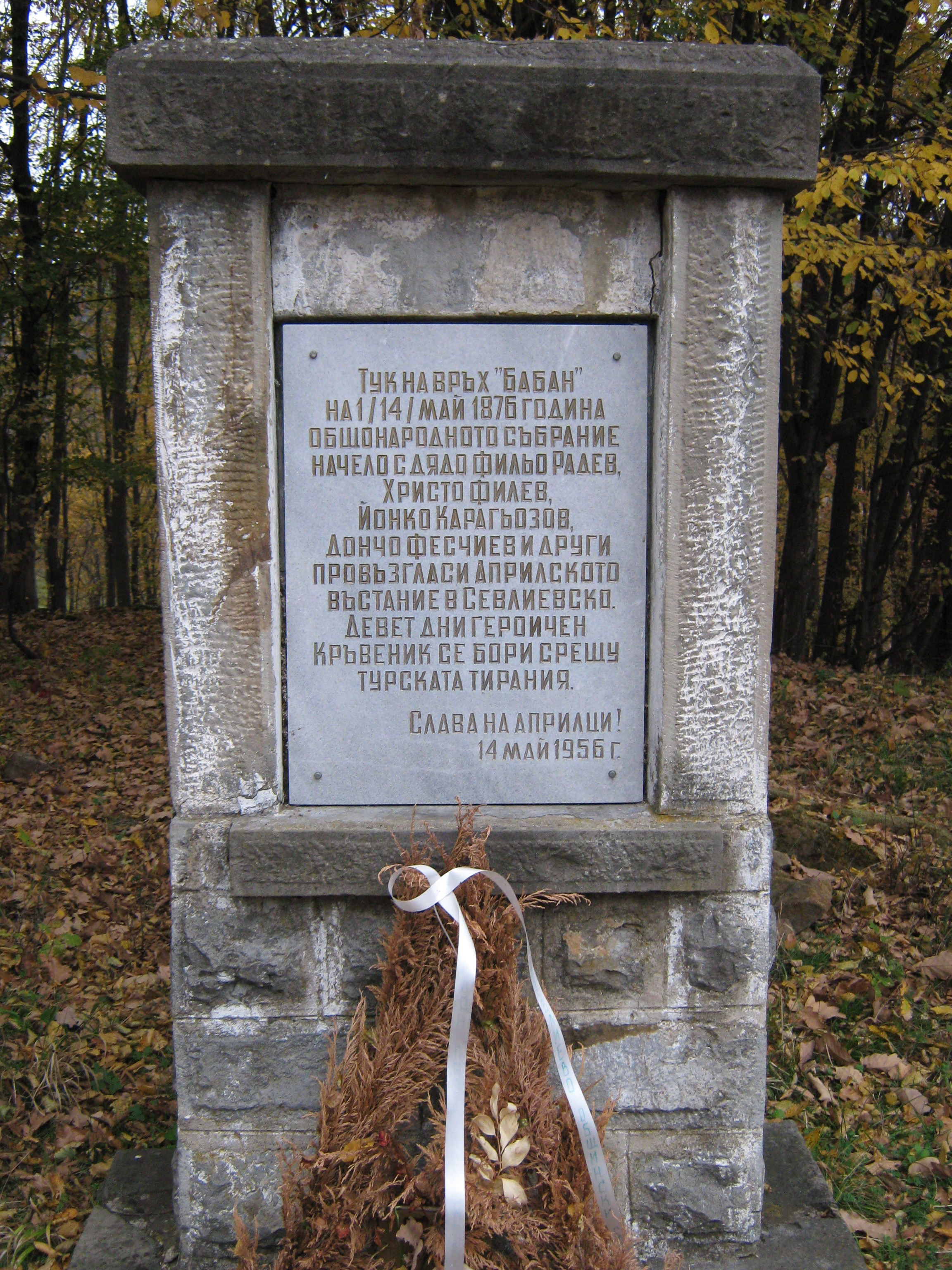 Baban